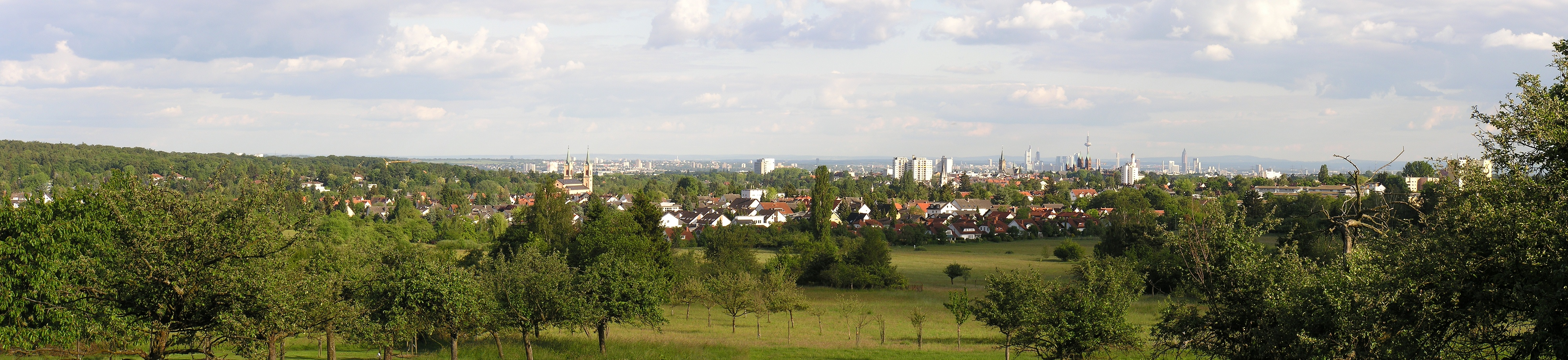 Bad Homburg, Germany. In the background Frankfurt can be seen. The photo was shoot in the north of Kirdorf (a district of Bad Homburg) in the nature reserve “Kirdorfer Feld”